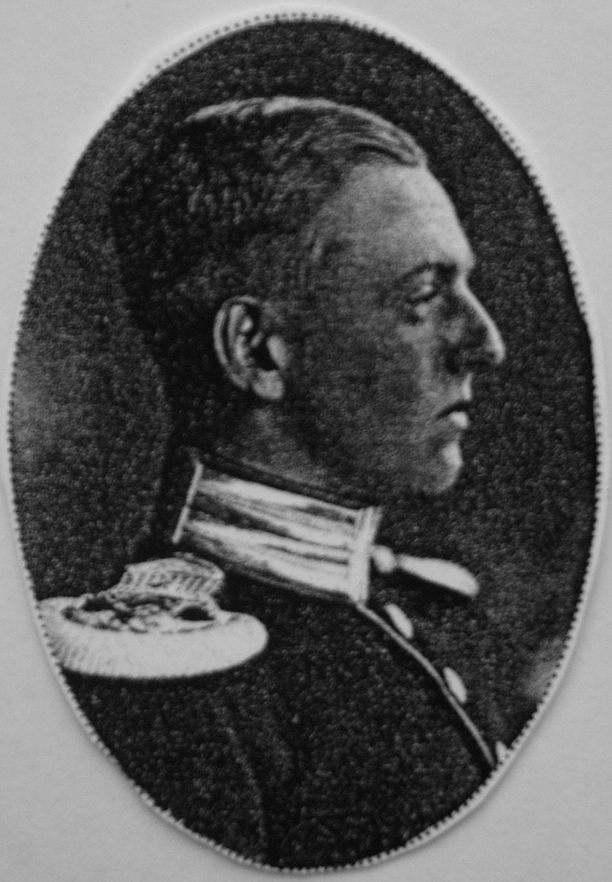 Picture of Cala Ehrensvard